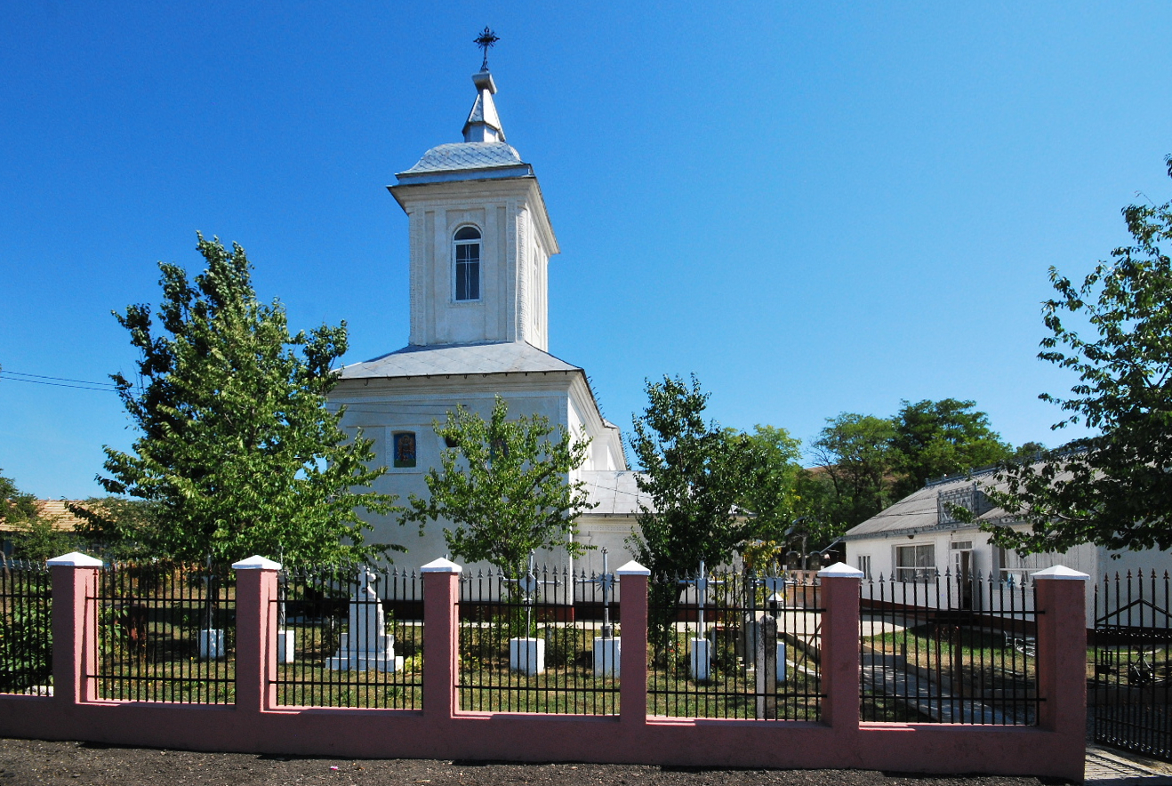 Saint Archangels Church of Borsa